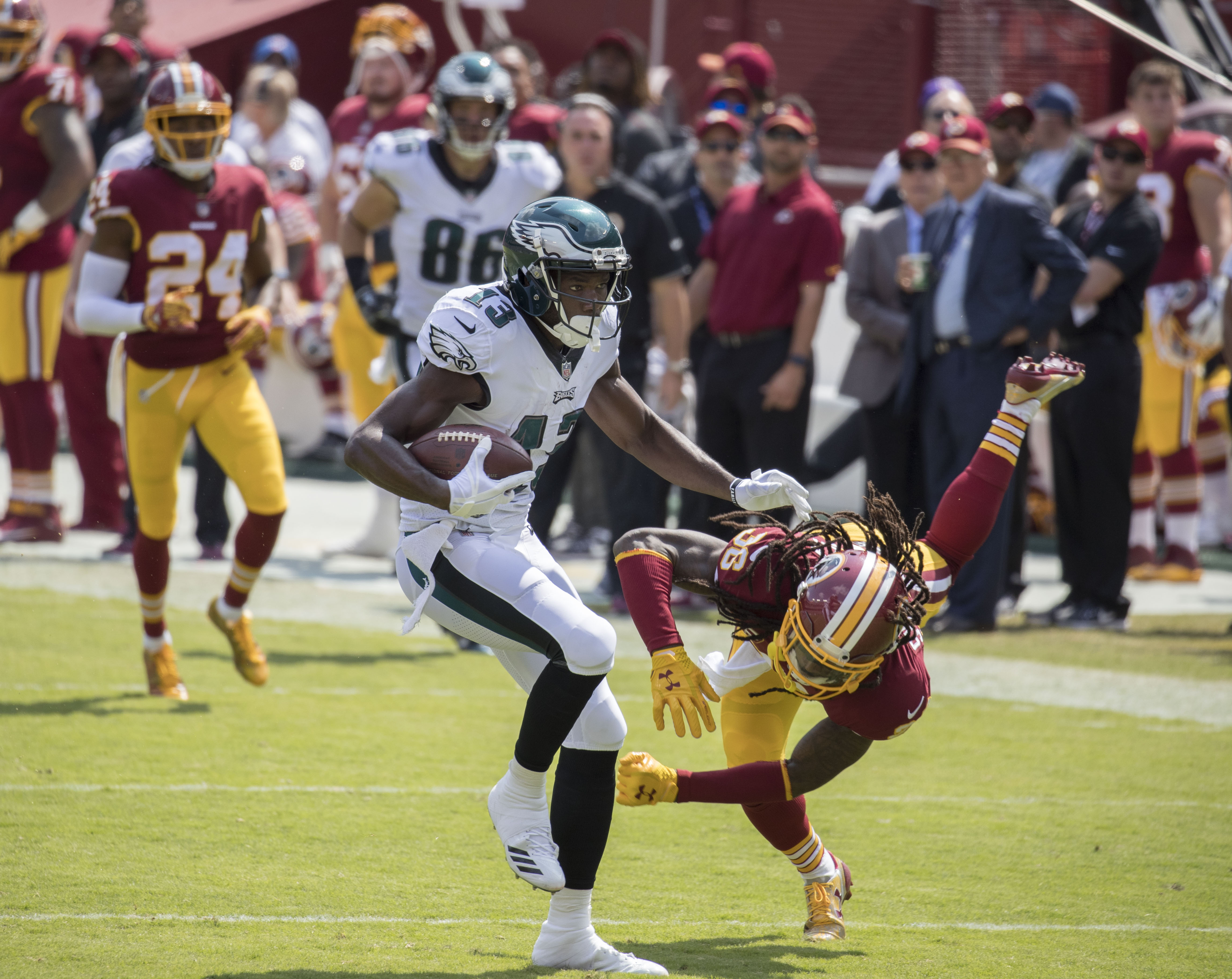 Philadelphia Eagles wide receiver, Nelson Agholor, breaking a tackle from Washington Redskins safety, D.J. Swearinger, in a game on September 10, 2017.